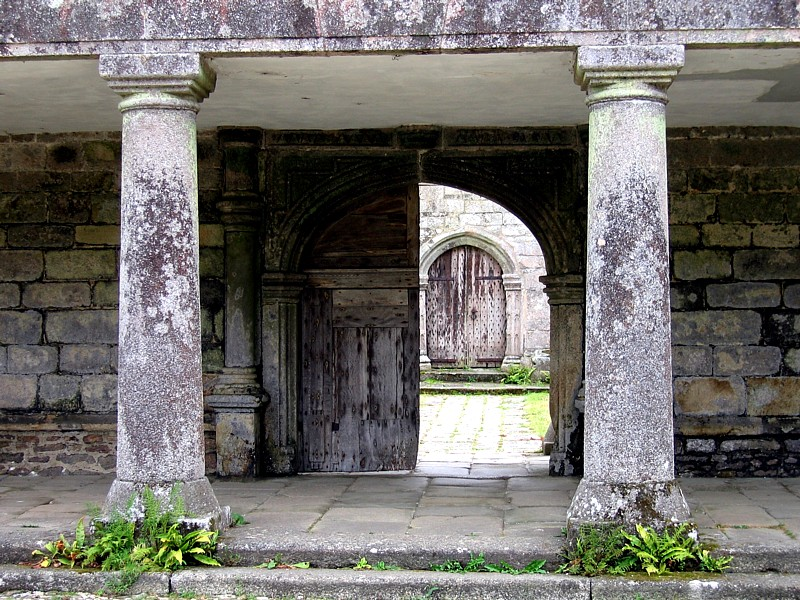 Godolphin House - Penwith - Cornwall - UK